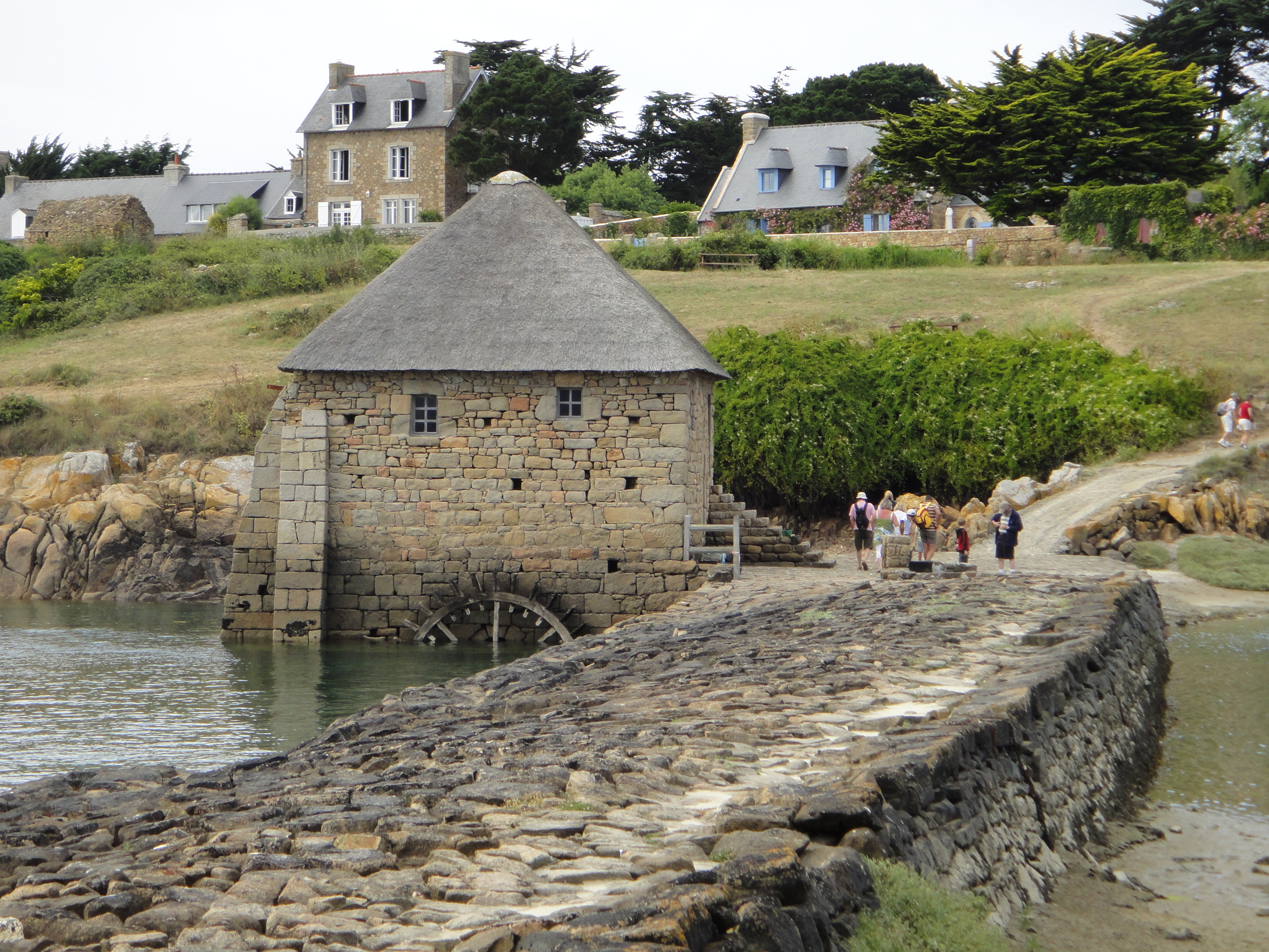 The "Birlot" tide mill, on Île-de-Bréhat.